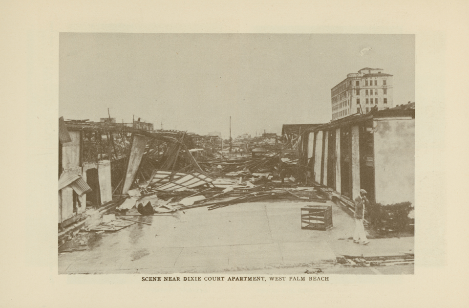 Scene near Dixie Court Apartment in West Palm Beach in Florida. Aftermath of the 1928 Okeechobee Hurricane